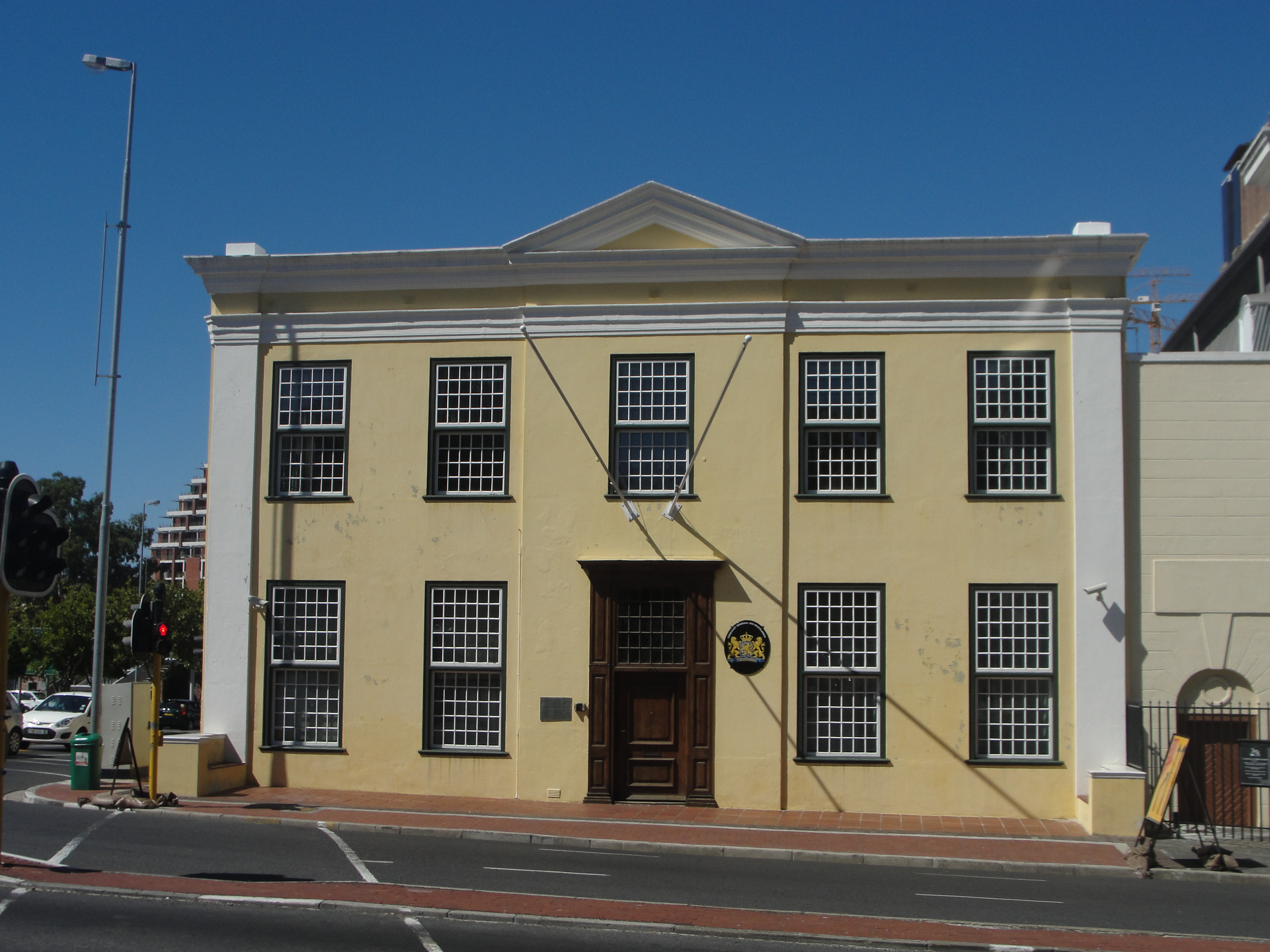 Sexton's House, Strand Street, Cape Town This media shows a South African Protected Site with SAHRA file reference 9/2/018/0199.